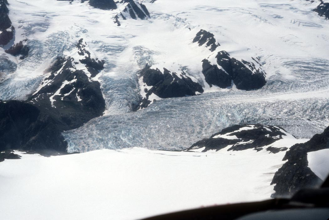 Harding Icefield, Kenai National Wildlife Refuge